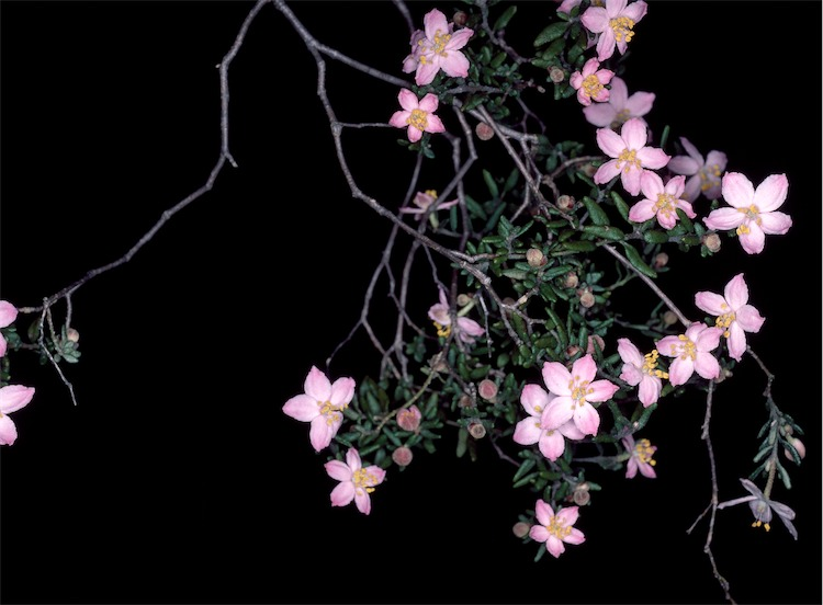 Asterolasia grandiflora in the Australian National Botanic Gardens